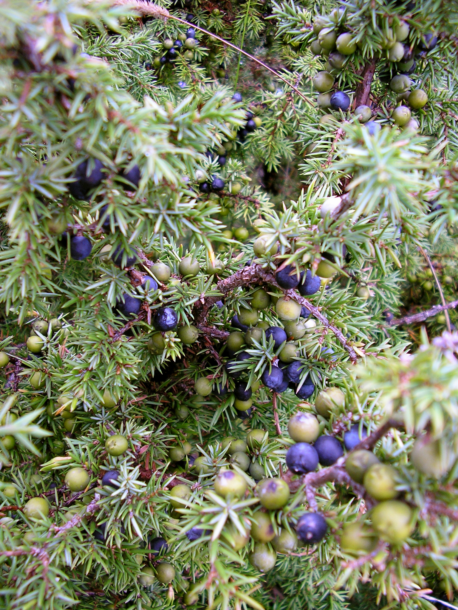 Juniperus communis (see also en:) with both ripe and yet unripe cones at Valjala hill fort, Saaremaa, Estonia on 11 August 2005.